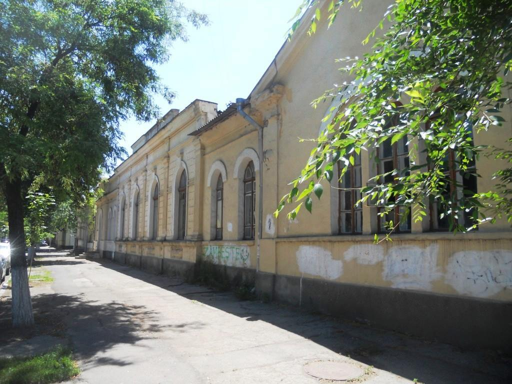 Muzeul zemstvei in Chișinău